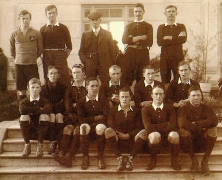 The first Argentina national rugby team ever, before playing the British Lions at the Sociedad Sportiva Argentina, sited in Palermo, Buenos Aires.